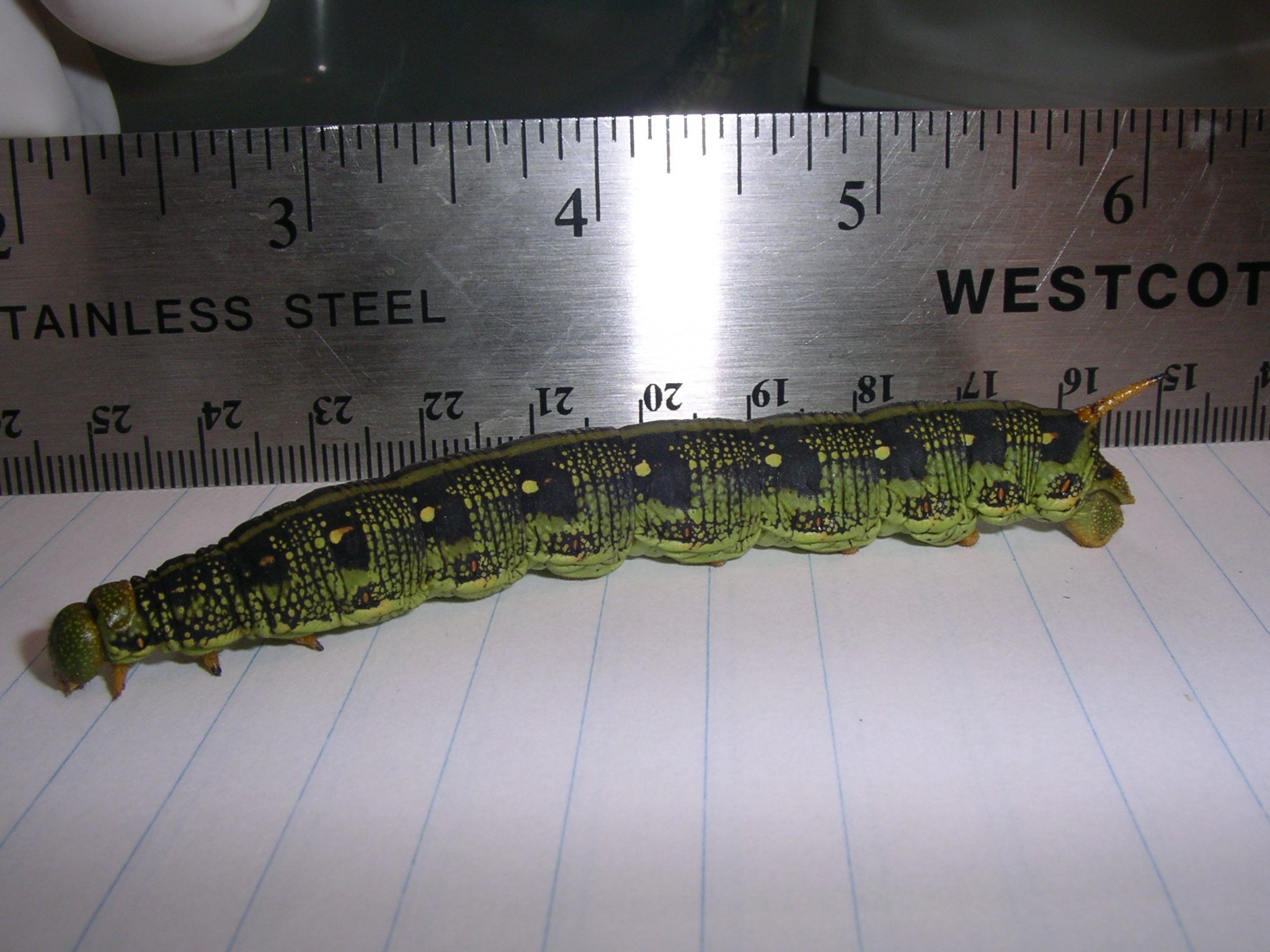 White-lined sphinx (Hyles lineata), late instar larva For more information, check out wiki's page on this sphinx moth.